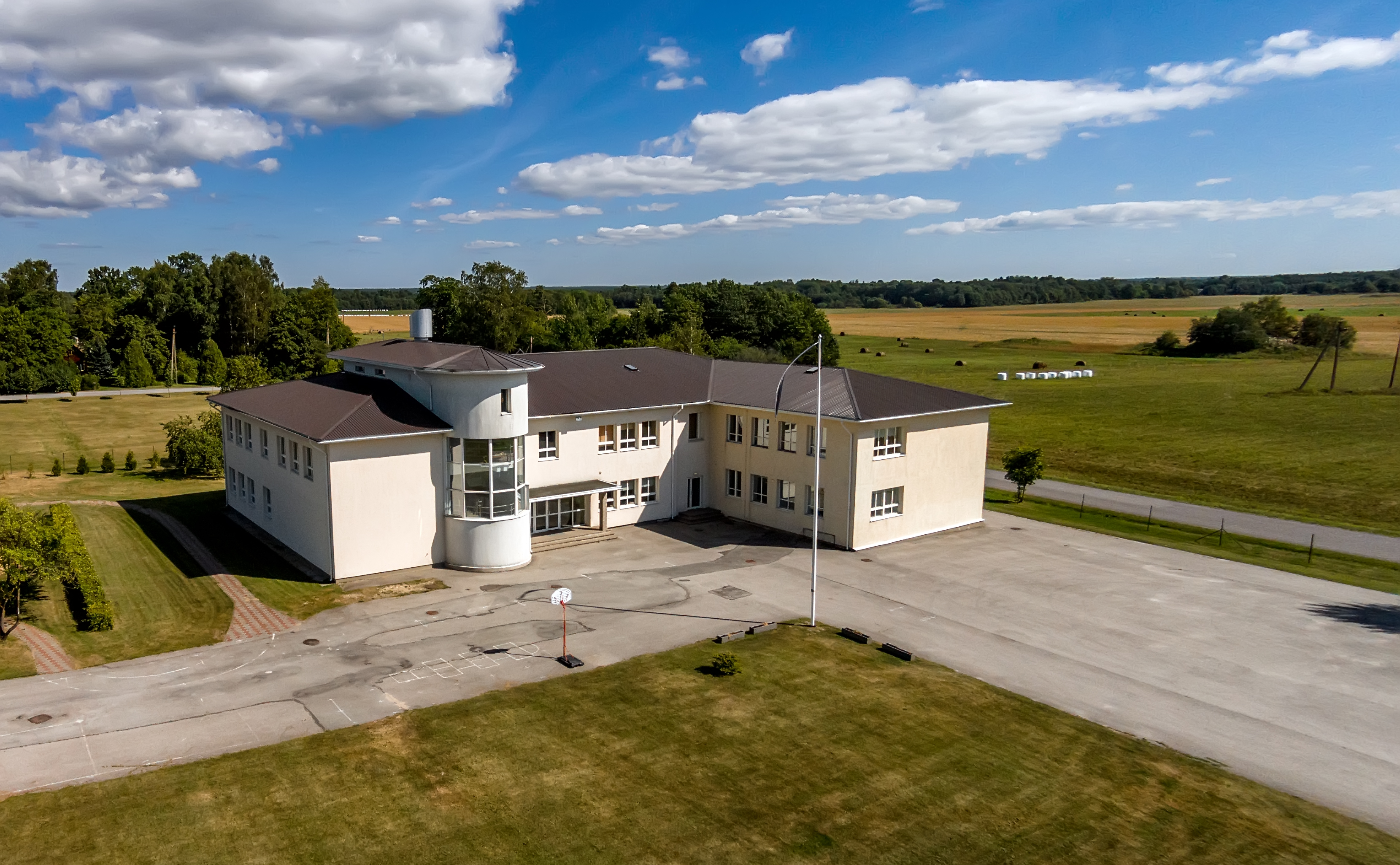 Varbla Basic School